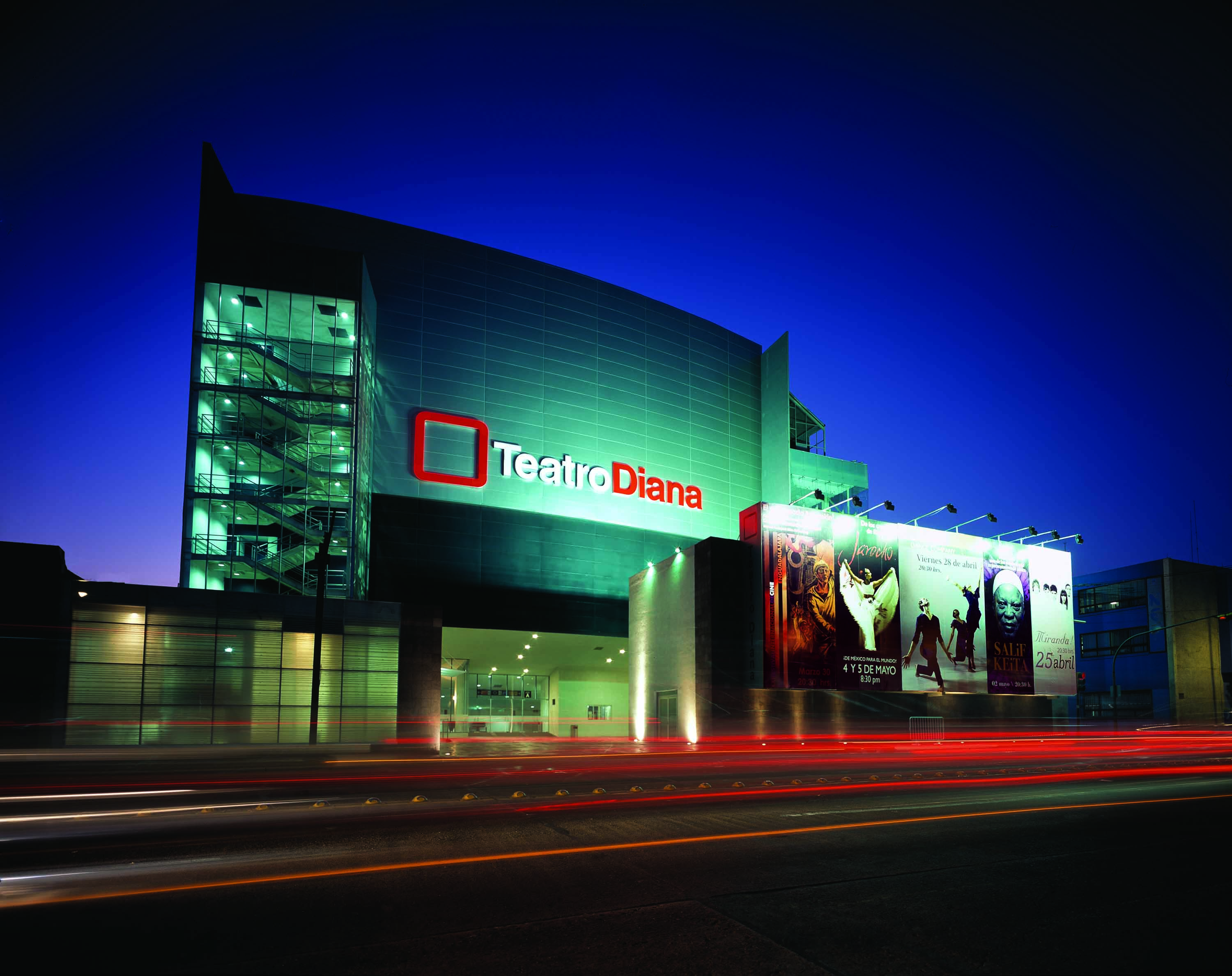 Centro Cultural Diana